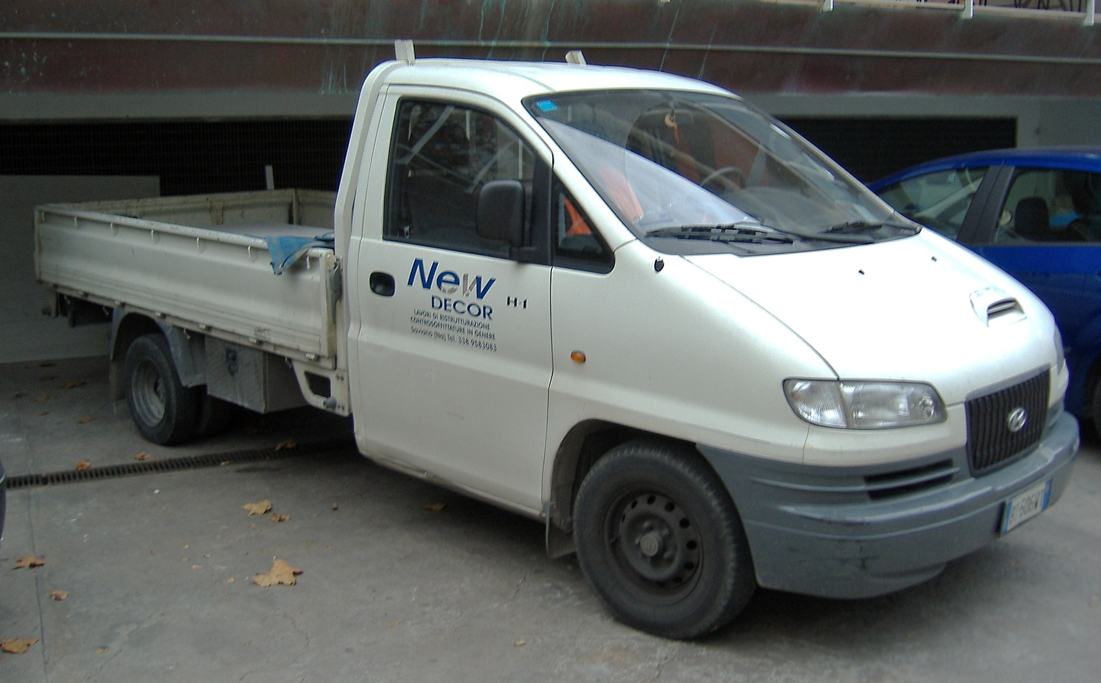 Hyundai H1 Libero